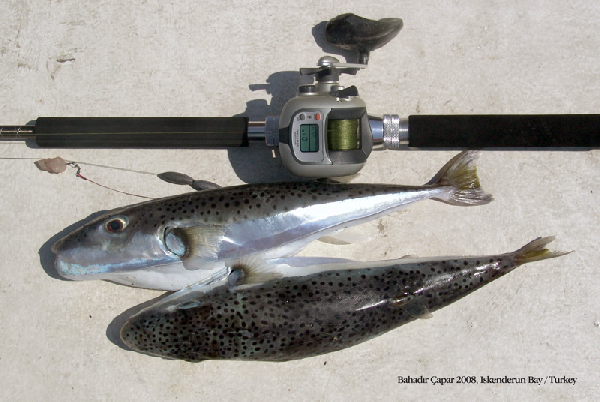 Lagocephalus sceleratus caught in Iskenderun, Turkey.